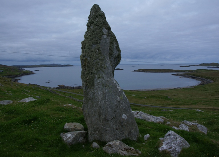 Skellister Standing Stone, Skellister, Shetland, Scotland